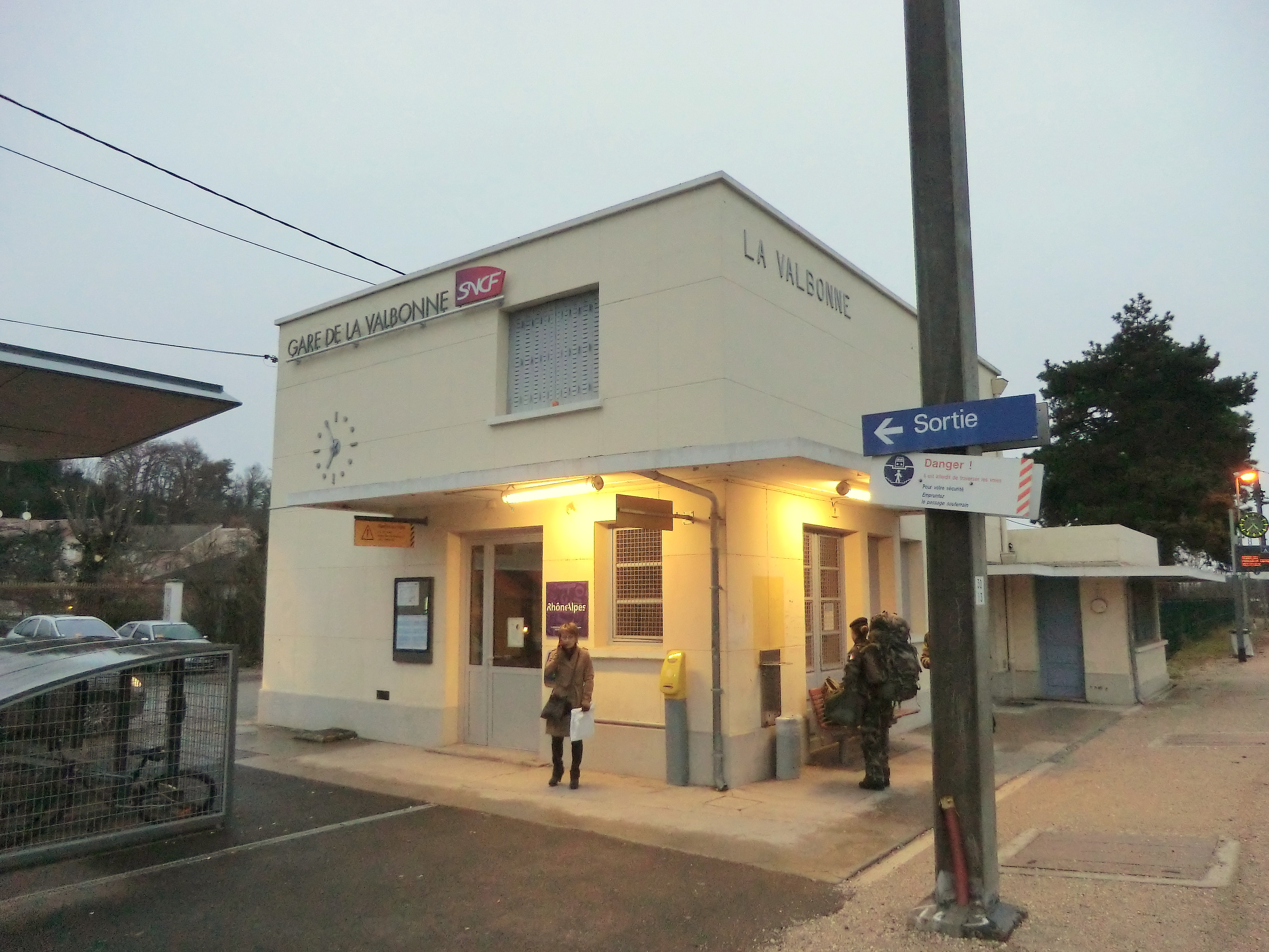 Gare de La Valbonne.